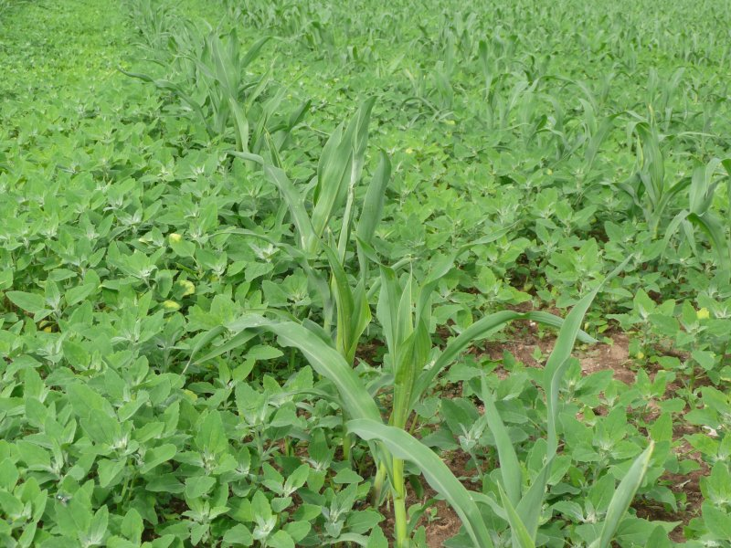 Weed of the Chenopodiaceae-family in a corn field, southern Germany